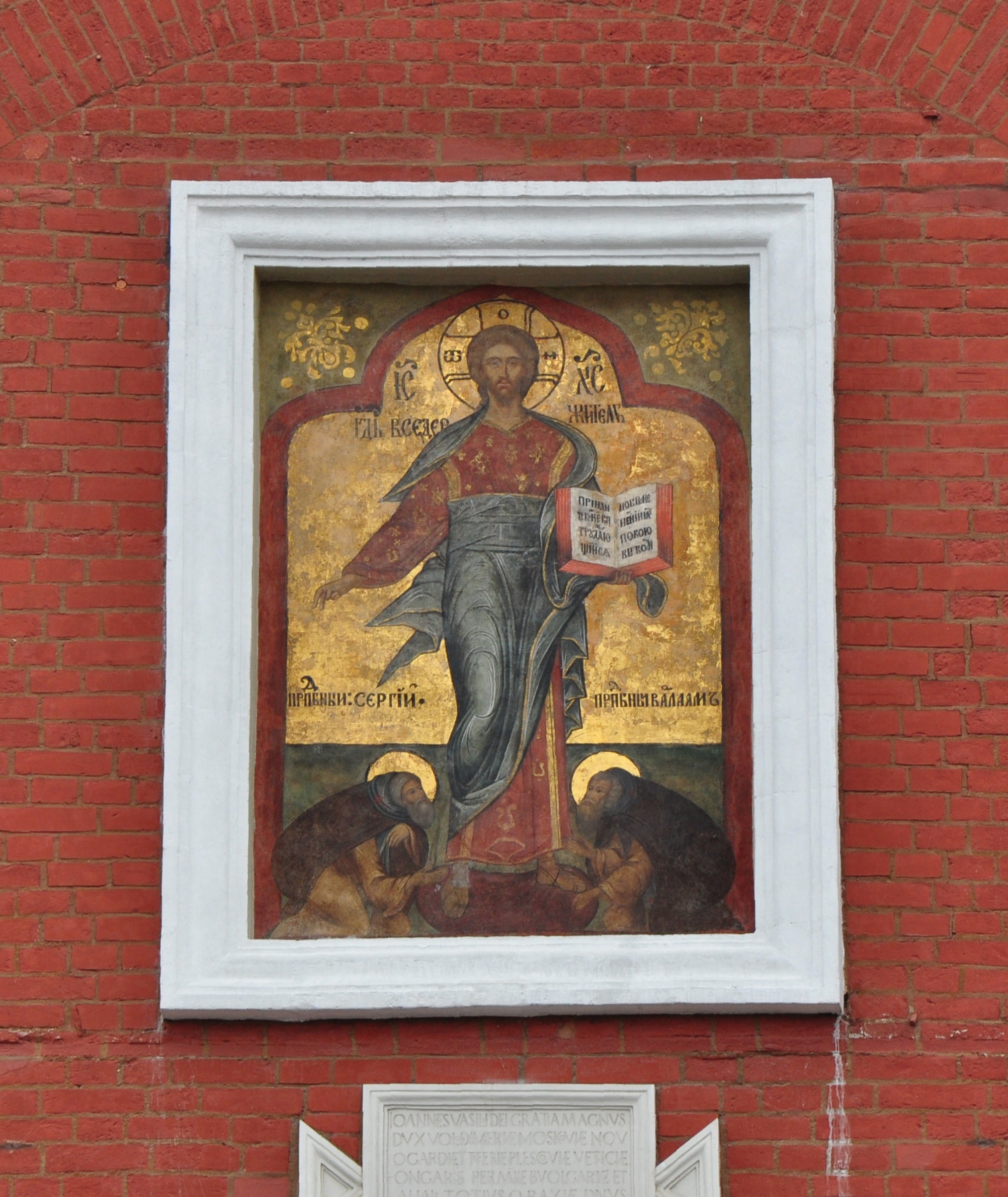 Spas Smolensky - above the gate icon of Spasskaya Tower